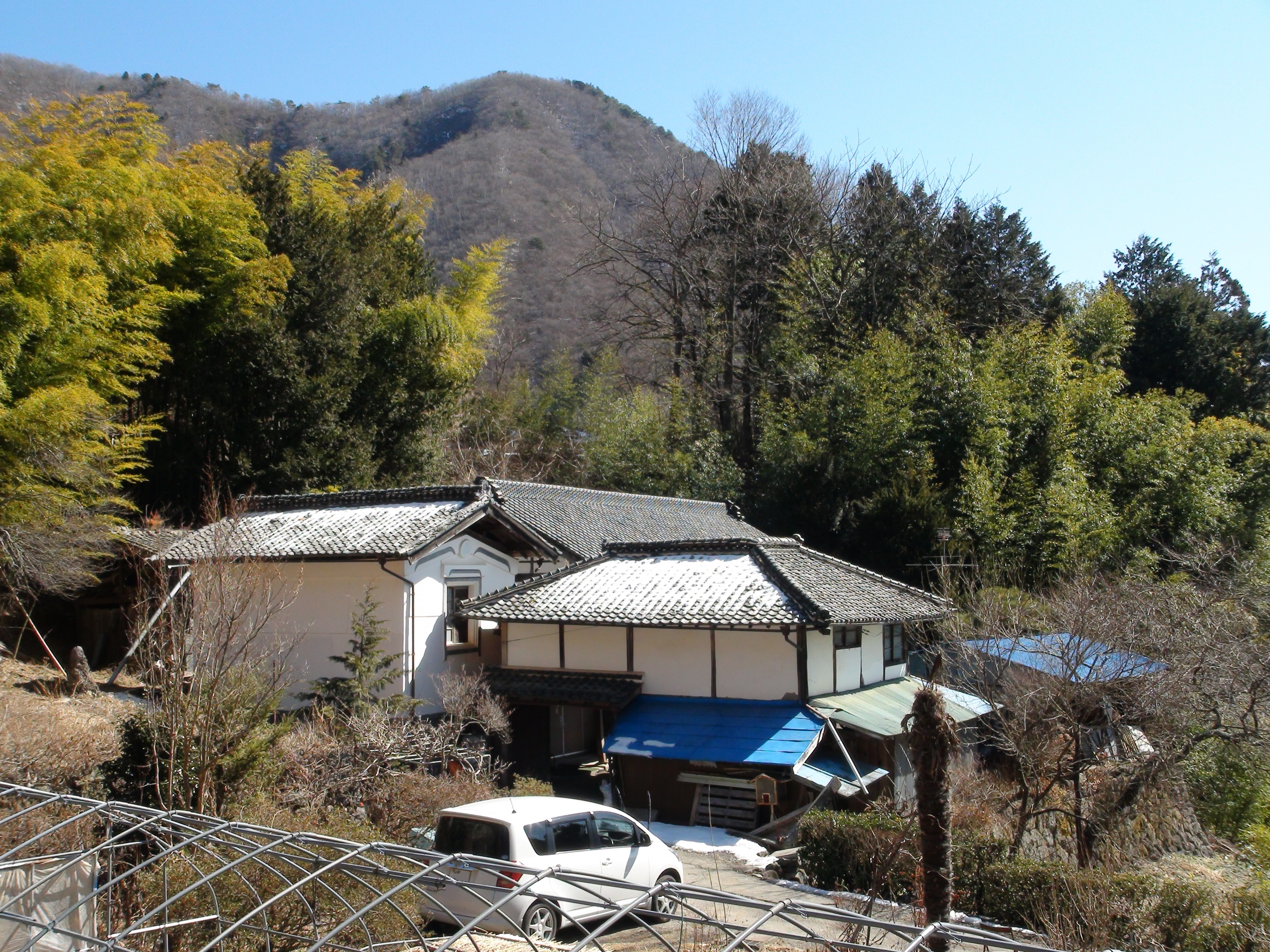 The private house of the location site of "Kamenoyu" of the Japanese movie in 1977 "A Rhyme of Vengeance" (Japanese original title "Akuma no temari-uta" ). The GPS data removed it intentionally.